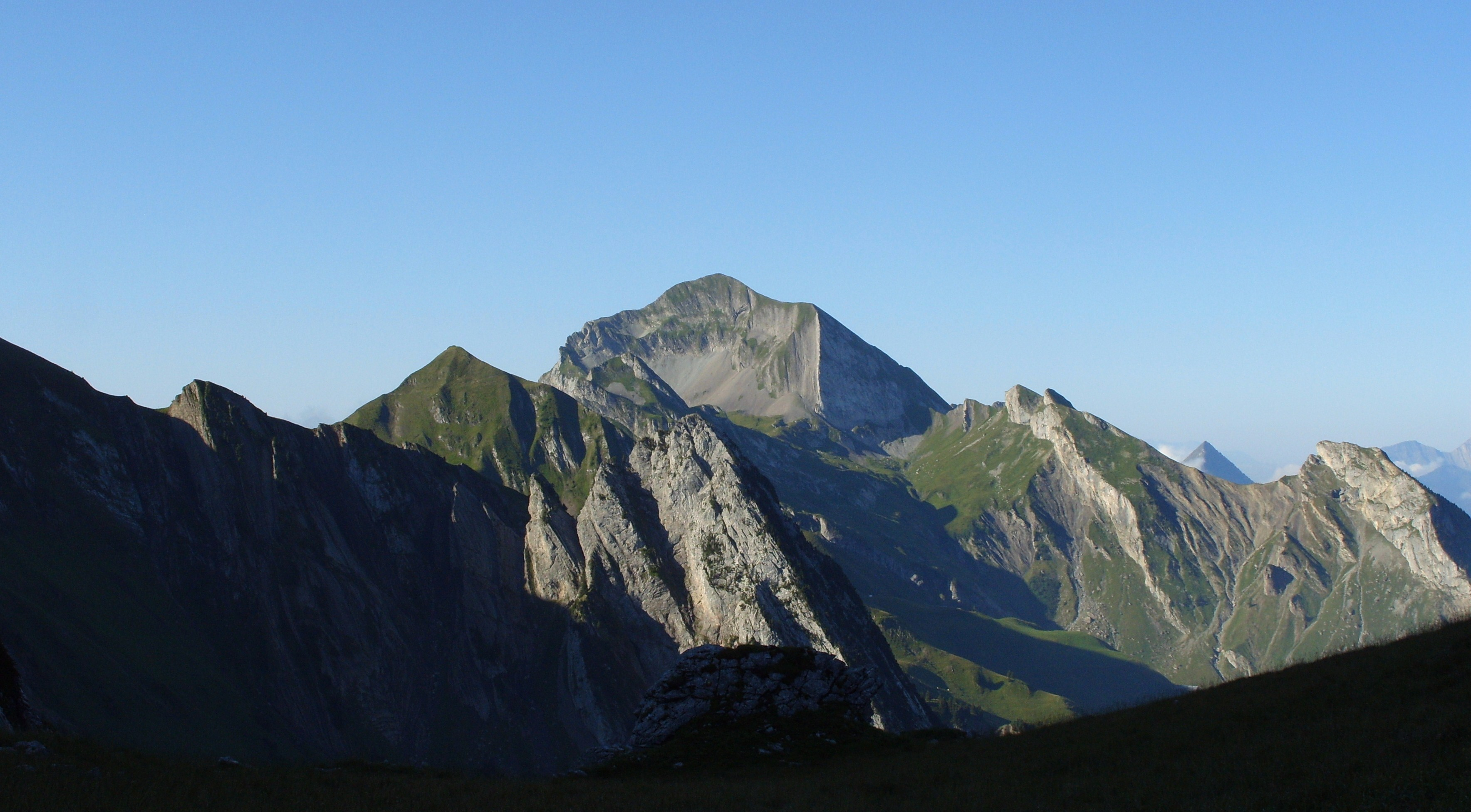 Mount Charvin (2409m)